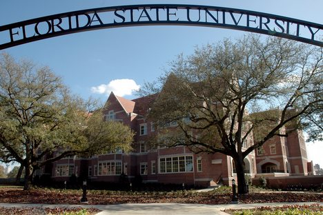 The College of Medicine as seen from the west entrance to the university at the corner of Stadium and Call St.